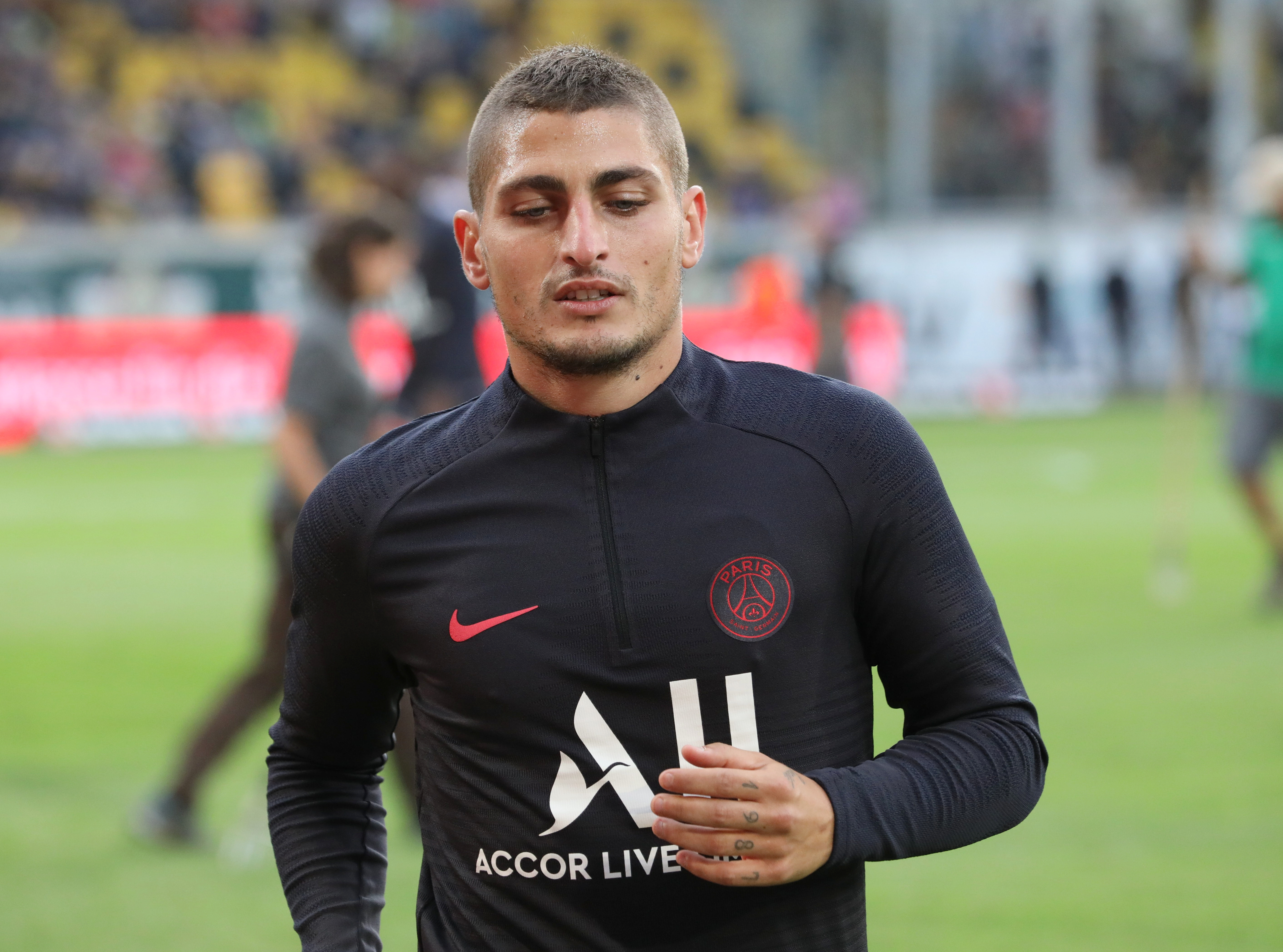 Test game, 17th July 2019: SG Dynamo Dresden vs. Paris Saint-Germain 1:6 (0:3)